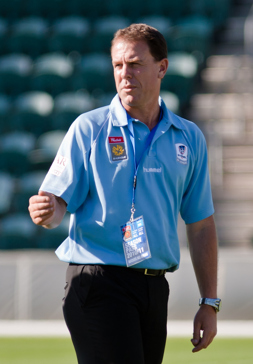 Alen Stajcic coaching at a W-League game in 2010.